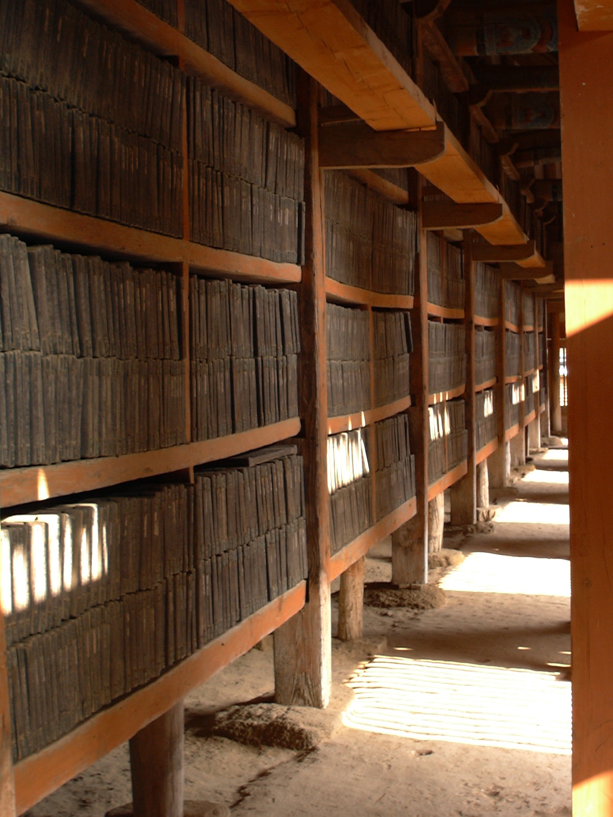 For more information at Tripitaka Koreana